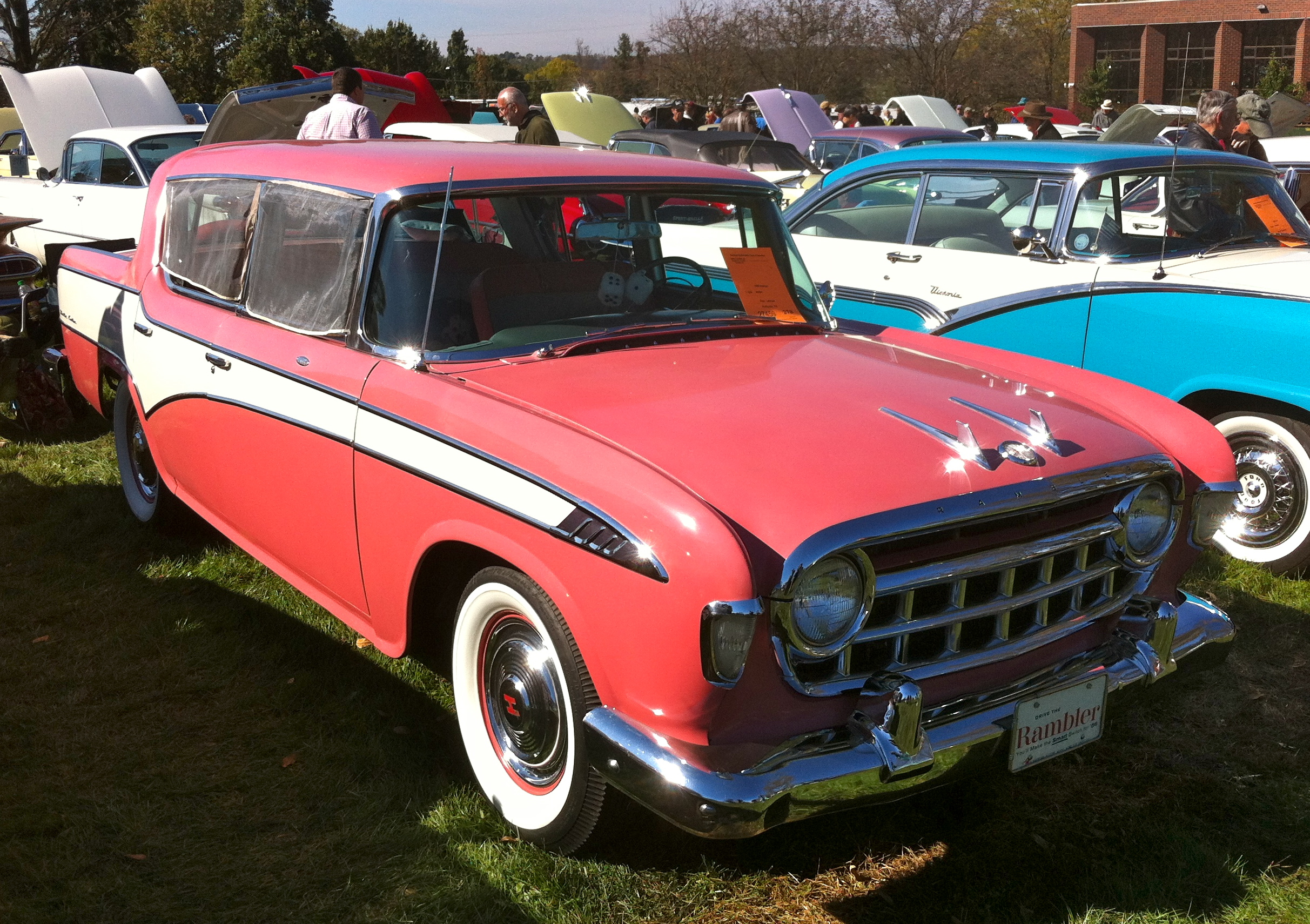 1956 Hudson Rambler 4-door sedan, "Custom" trim model - built by the American Motors Corporation (AMC). Front right side view. This four-door sedan features the popular two-tone exterior finish for the era, as well as the factory "Weather Eye" heating and air conditioning system. It has the "airliner" individually adjustable and reclining front seats that can be used as a bed. The dealer accessory window insect screens as also installed on the car's right side. The "compact" 108-inch wheelbase Rambler line was marketed by both Hudson and Nash dealerships during the introductory 1956 model year. The cars were nearly identical, except for hubcaps with an 'H' in the center, as well as the Hudson logo on the hood and the 'H' grille inserts. Total production of 1956 Hudson Ramblers was 20,496 in three levels of trim in four-door station wagon and sedan body styles. Picture taken on the show field of the Antique Automobile Club of America (AACA) 2012 Hershey meet that is held every October in Pennsylvania.